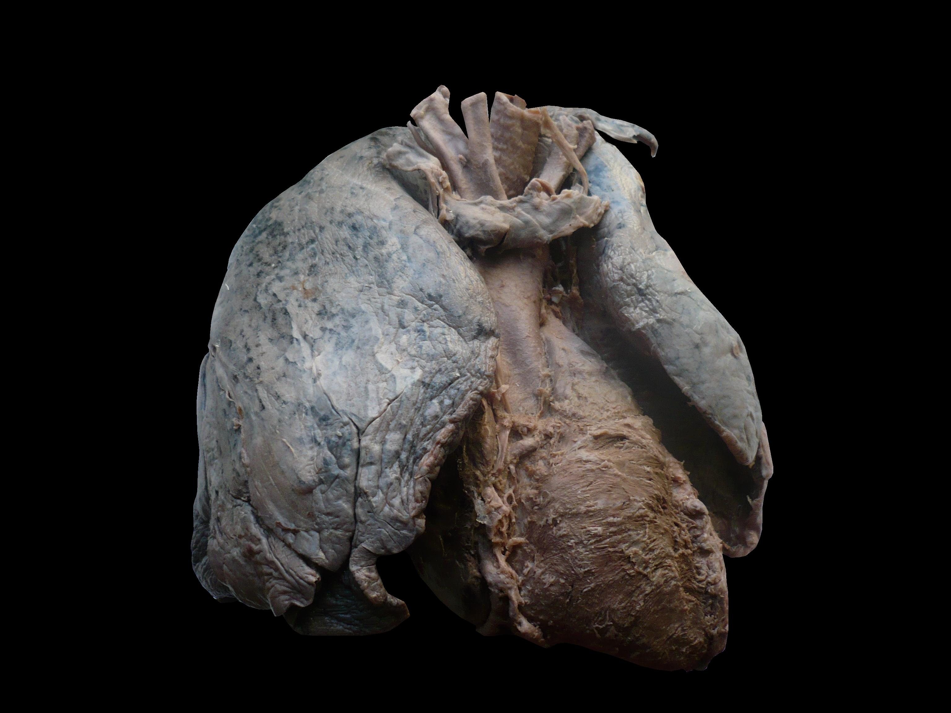 Heart and lungs